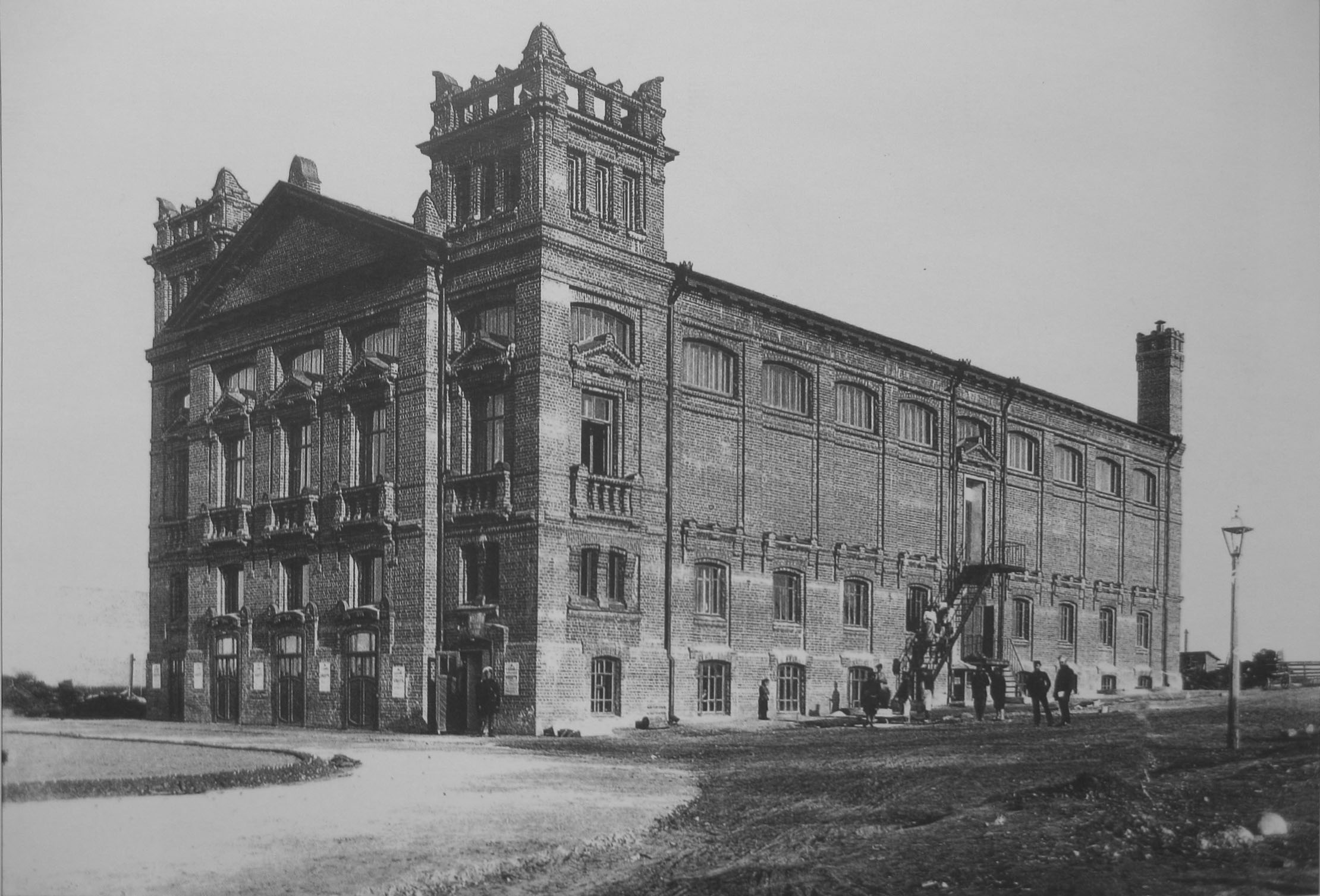 Public House in Nyzhny Novgorod was built in 1903 on Gorky's and Shalyapin's own initiative. It had an available to everybody theatre hall.